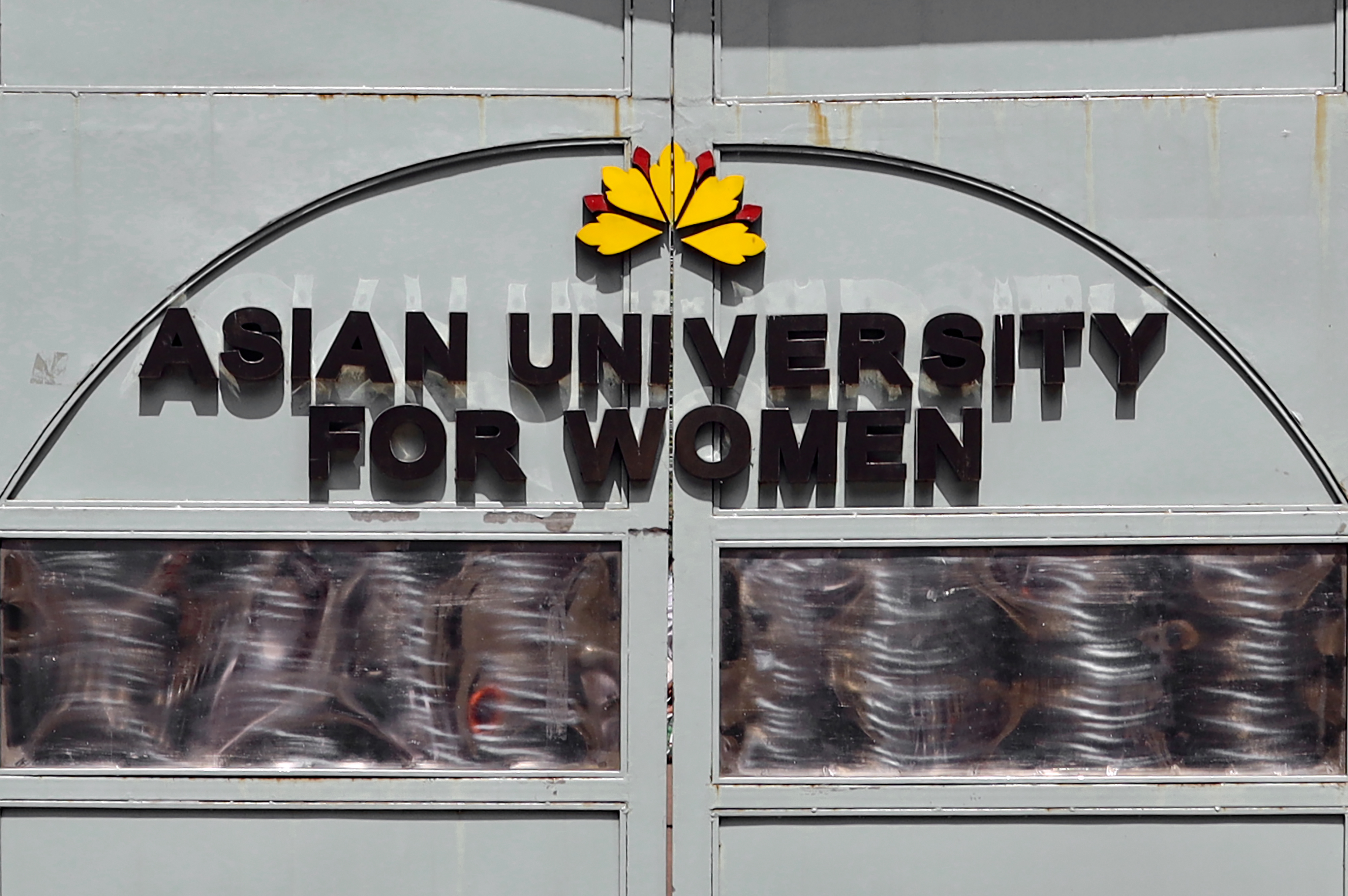 Coat of Arms, Asian University for Women